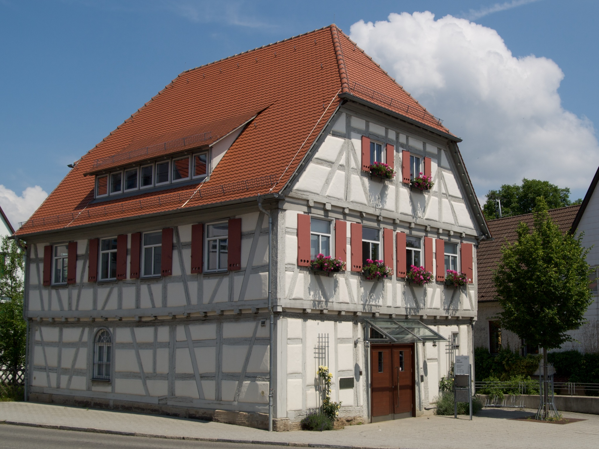 The "old town hall" in Kusterdingen.